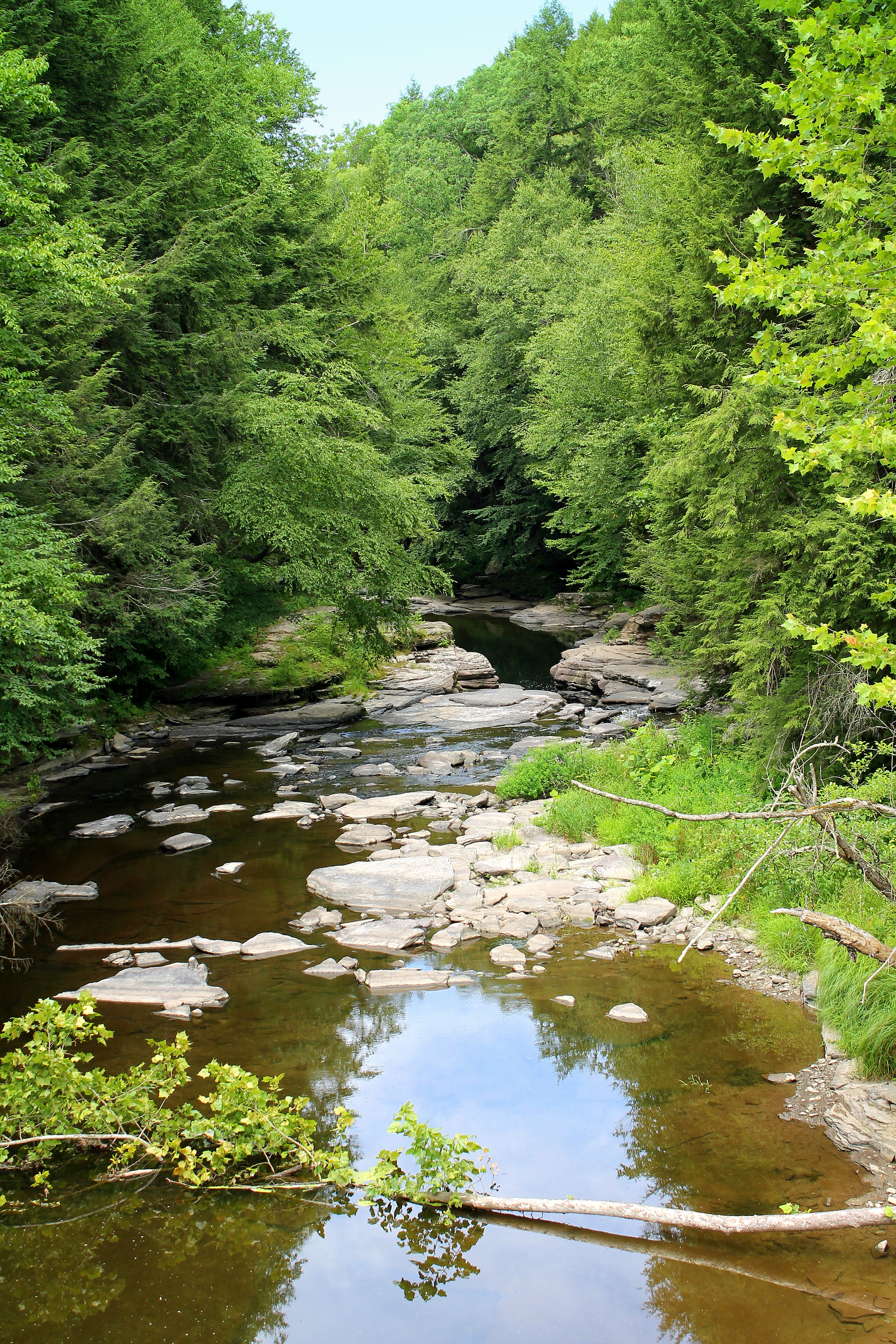 South Branch Tunkhannock Creek looking downstream at Little Rocky Glen in Clinton Township, Wyoming County, Pennsylvania.